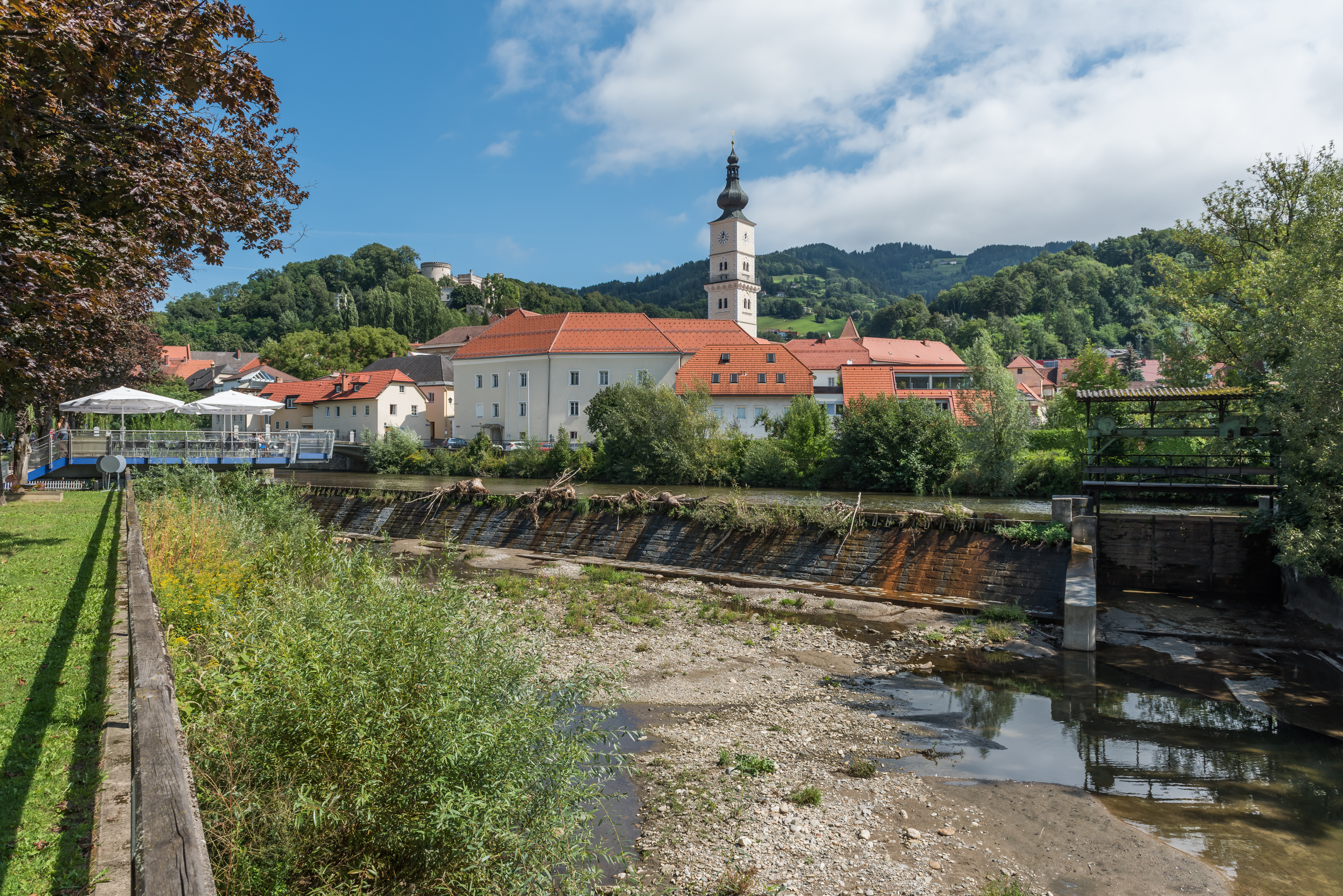 View at the historic center on the river Lavant, municipality Wolfsberg, district Wolfsberg, Carinthia, Austria, EU